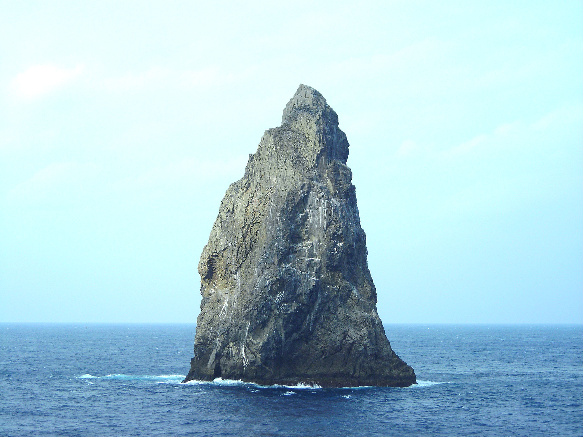 The island of Sōfu Iwa , also known as Lot's Wife Rock, Izu Islands, Japan